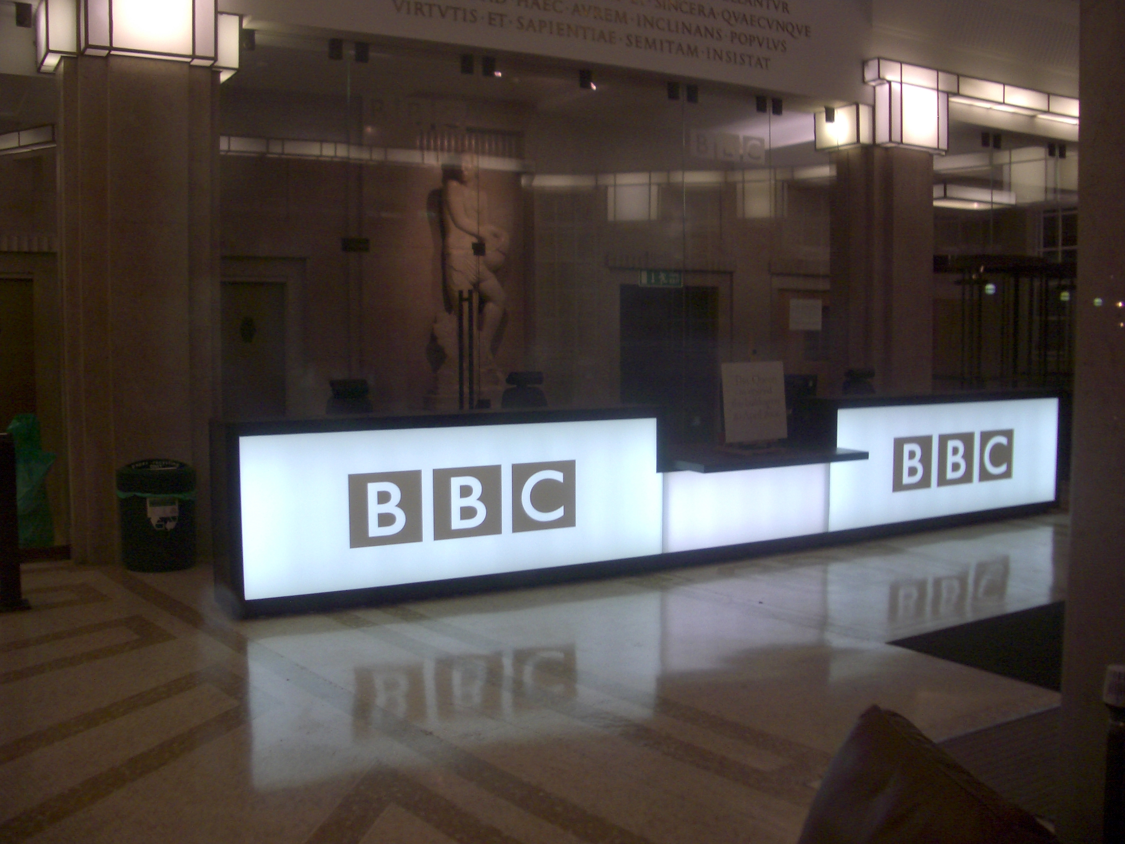 Spangly new reception at Broadcasting House